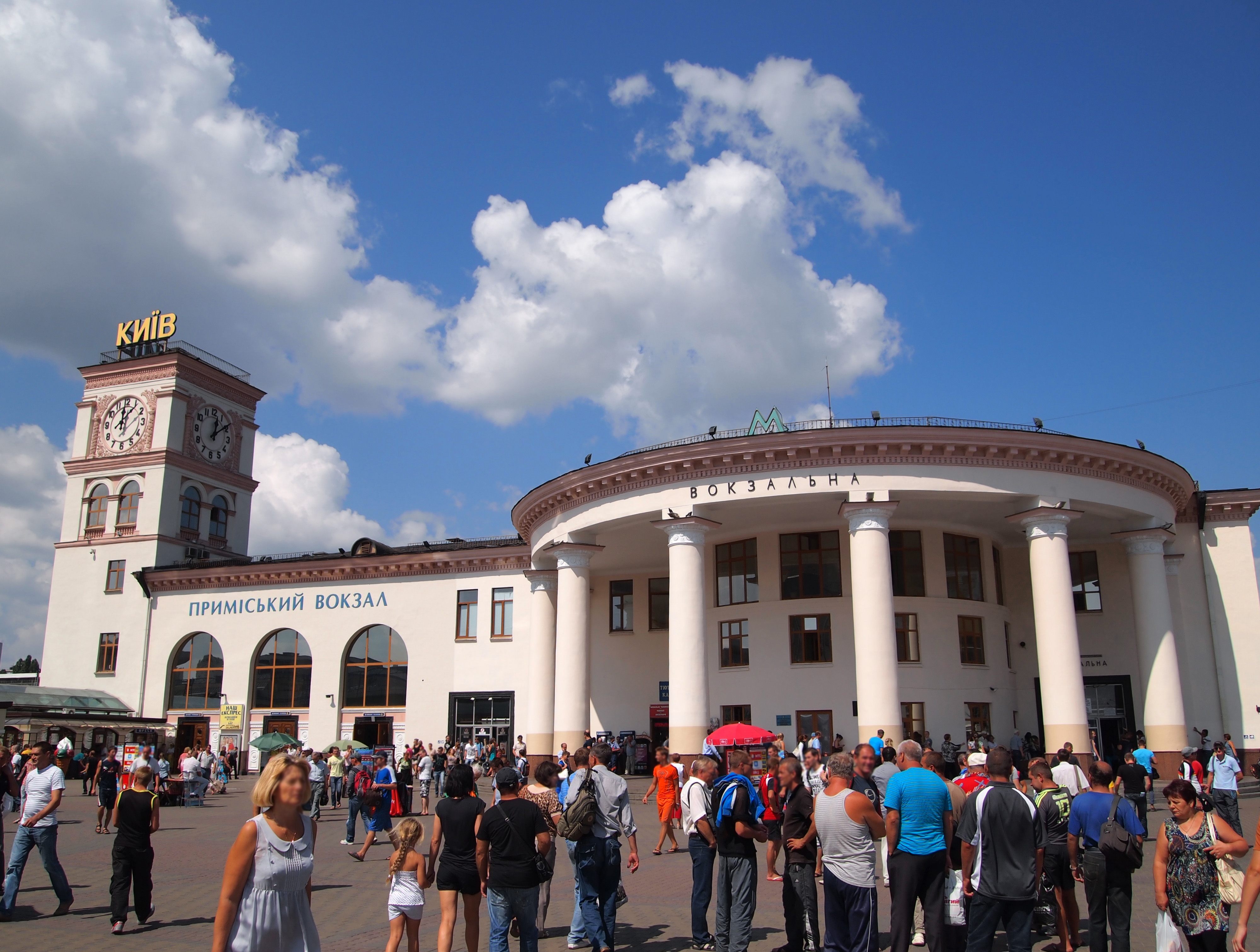 Metro station near the train station in Kiev. This photograph was taken with a Olympus E-PL1.